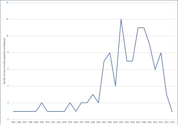 The Y-axis shows the number of cases of social opposition to Mosques. The events with a duration of more than one year were counted for each year.